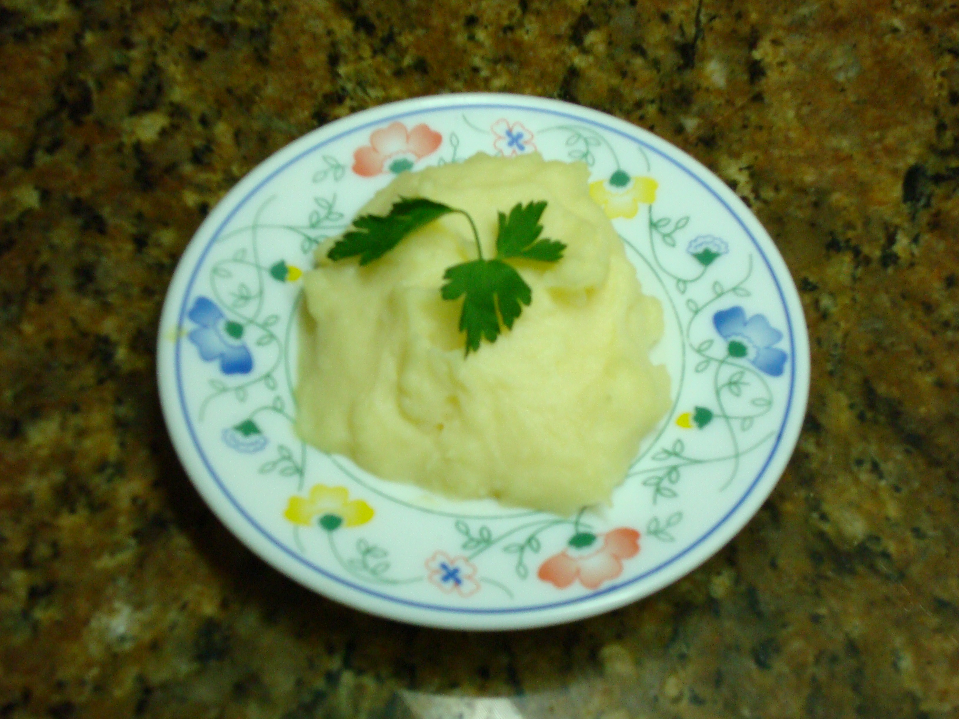 Mashed potatoes with a parsley leaf.